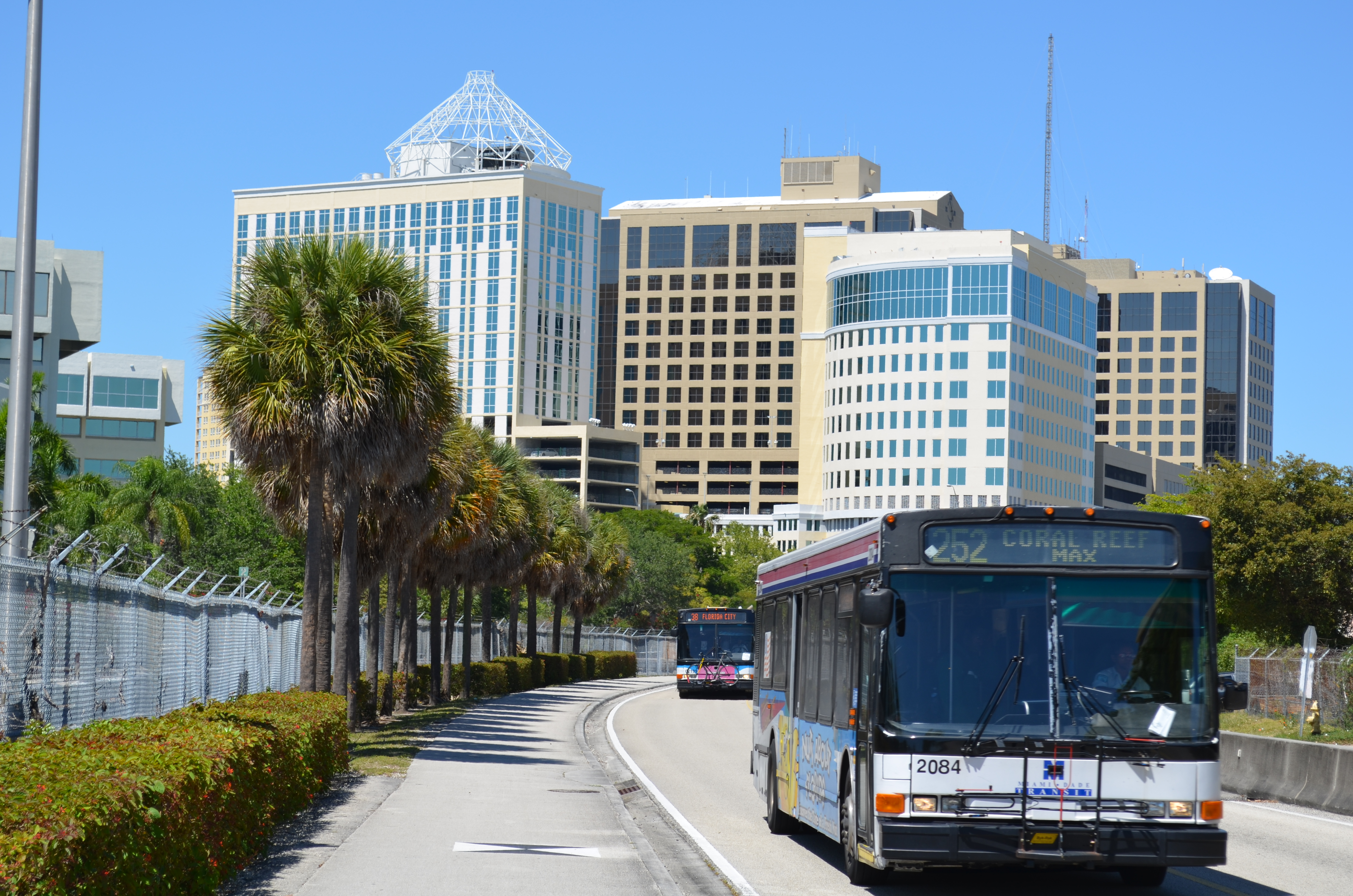 Dadeland in unincorporated Kendall, Miami-Dade County, Florida has a former industrial area that allowed zoning for large commercial development, taking on the characteristics of an edge city since the mid 2000s. Seen from the South Miami-Dade Busway.